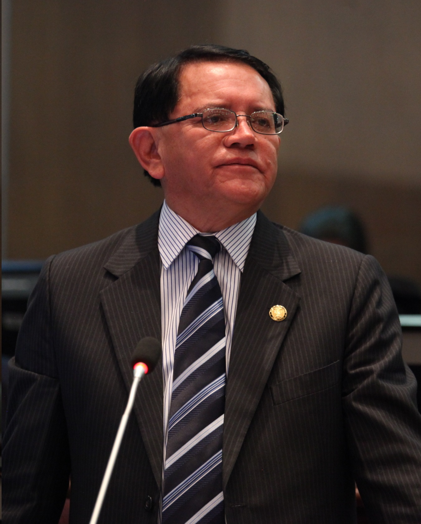 Raul Auquilla. Cropped from File:Asambleísta Raúl Auquilla en su intervención en la sesión No.- 257 del Pleno de la Asamblea Nacional, continuación (10213772826).jpg